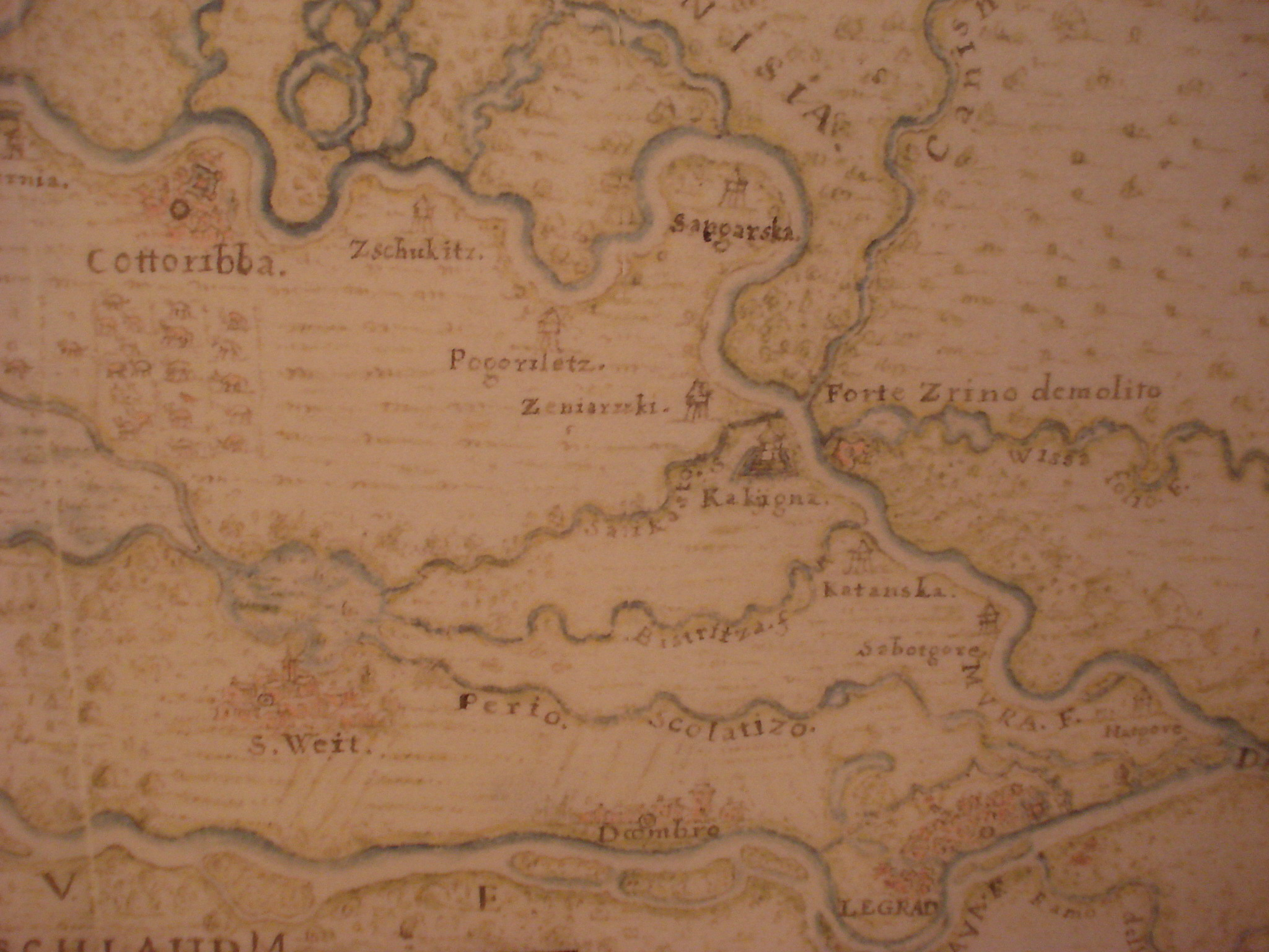 Old map of Novi Zrin and a part of Medjimurie County, Croatia, made by Giovanni Giuseppe Spalla (1670)